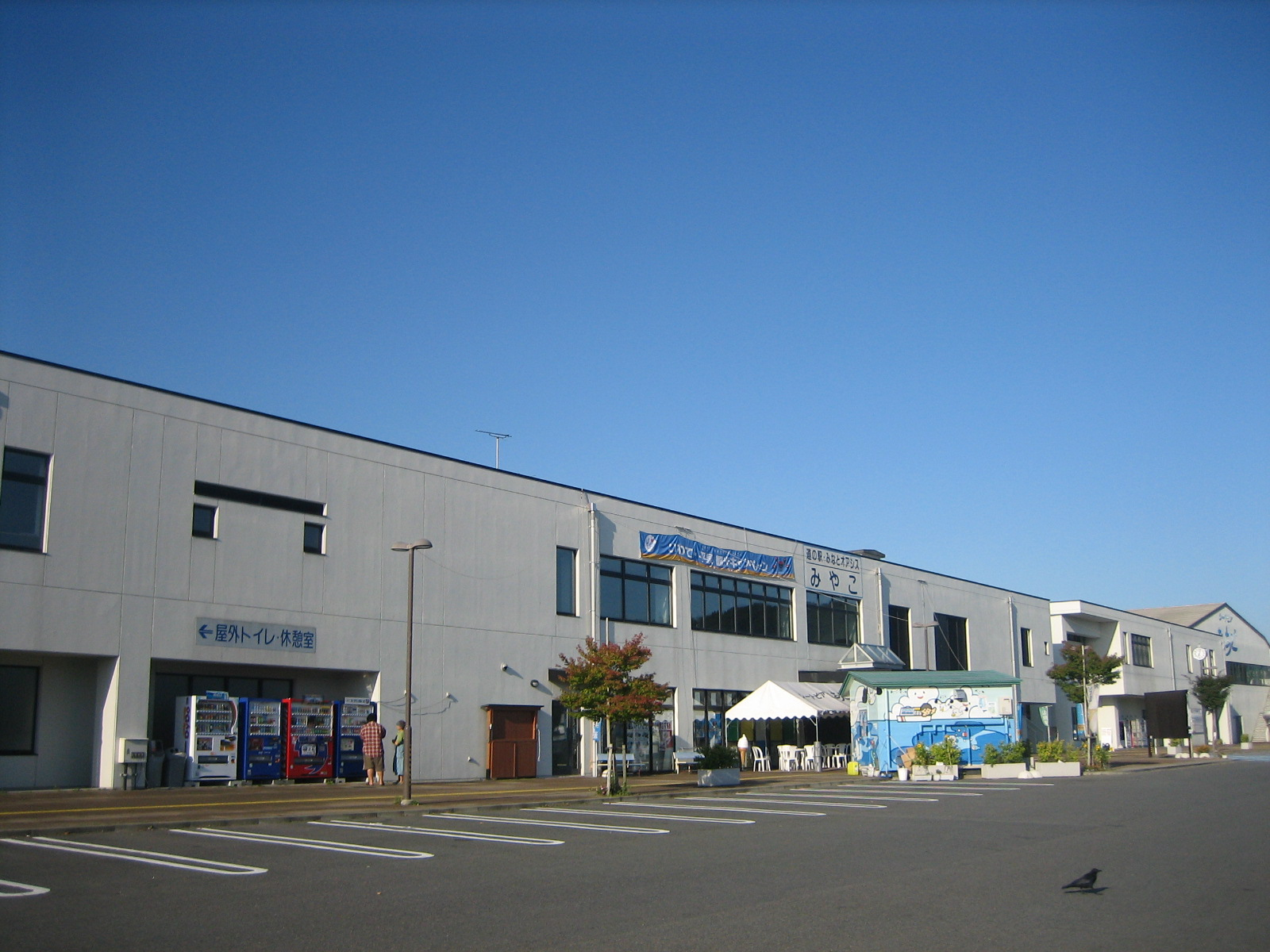 Michinoeki Miyako in Iwate, Japan